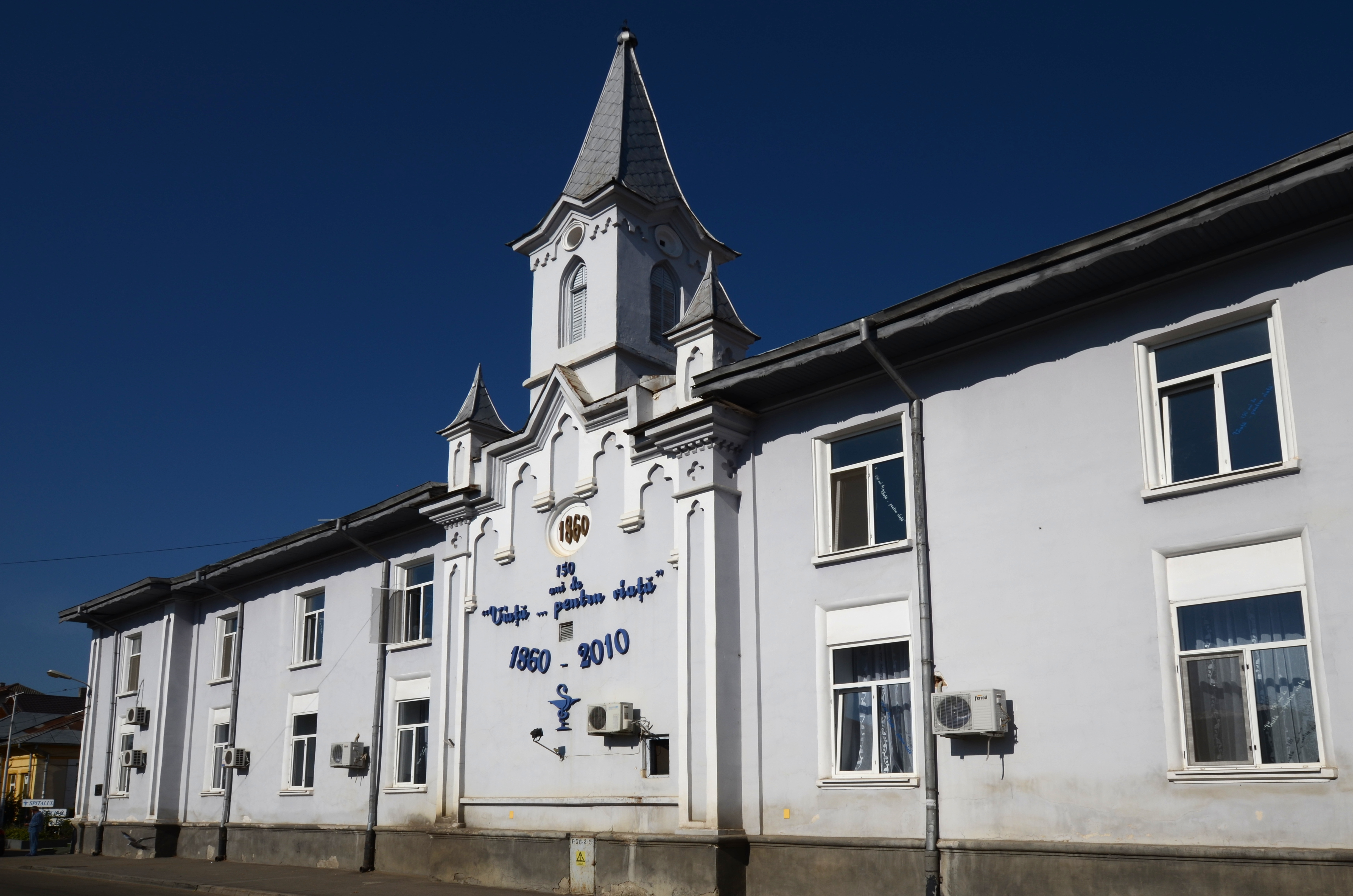 Fălticeni Municipal Hospital (the old building)